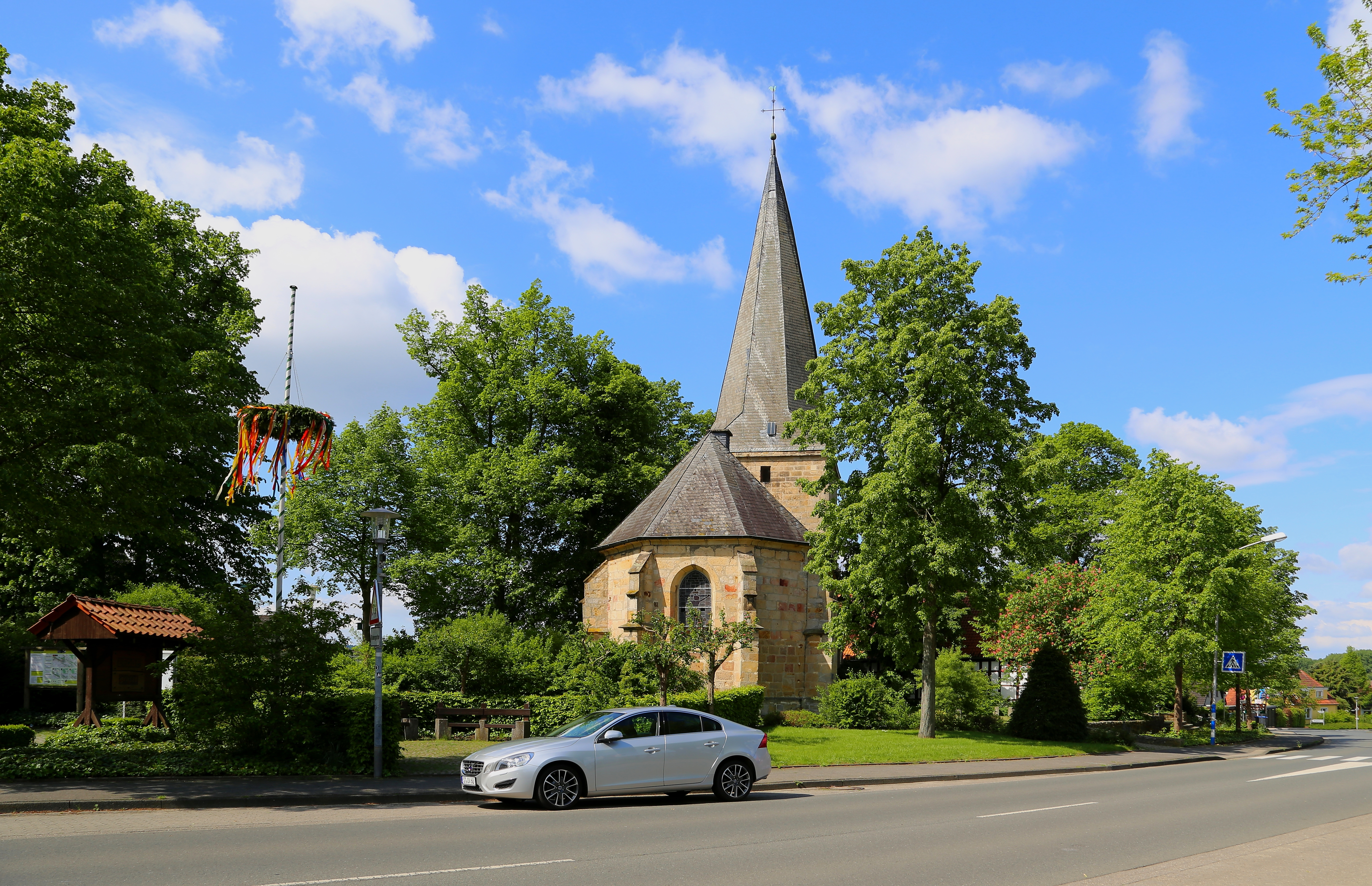 The Protestant Village Church (Dorfkirche) in Tecklenburg-Ledde, Kreis Steinfurt, North Rhine-Westphalia, Germany. The church is also a designated Site of Community Importance.